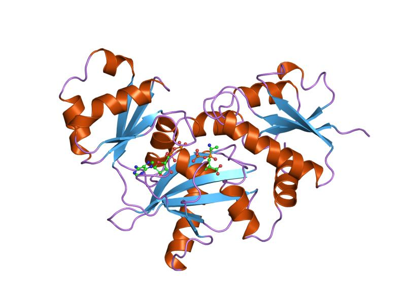 Cartoon representation of the molecular structure of protein registered with 1iow code.